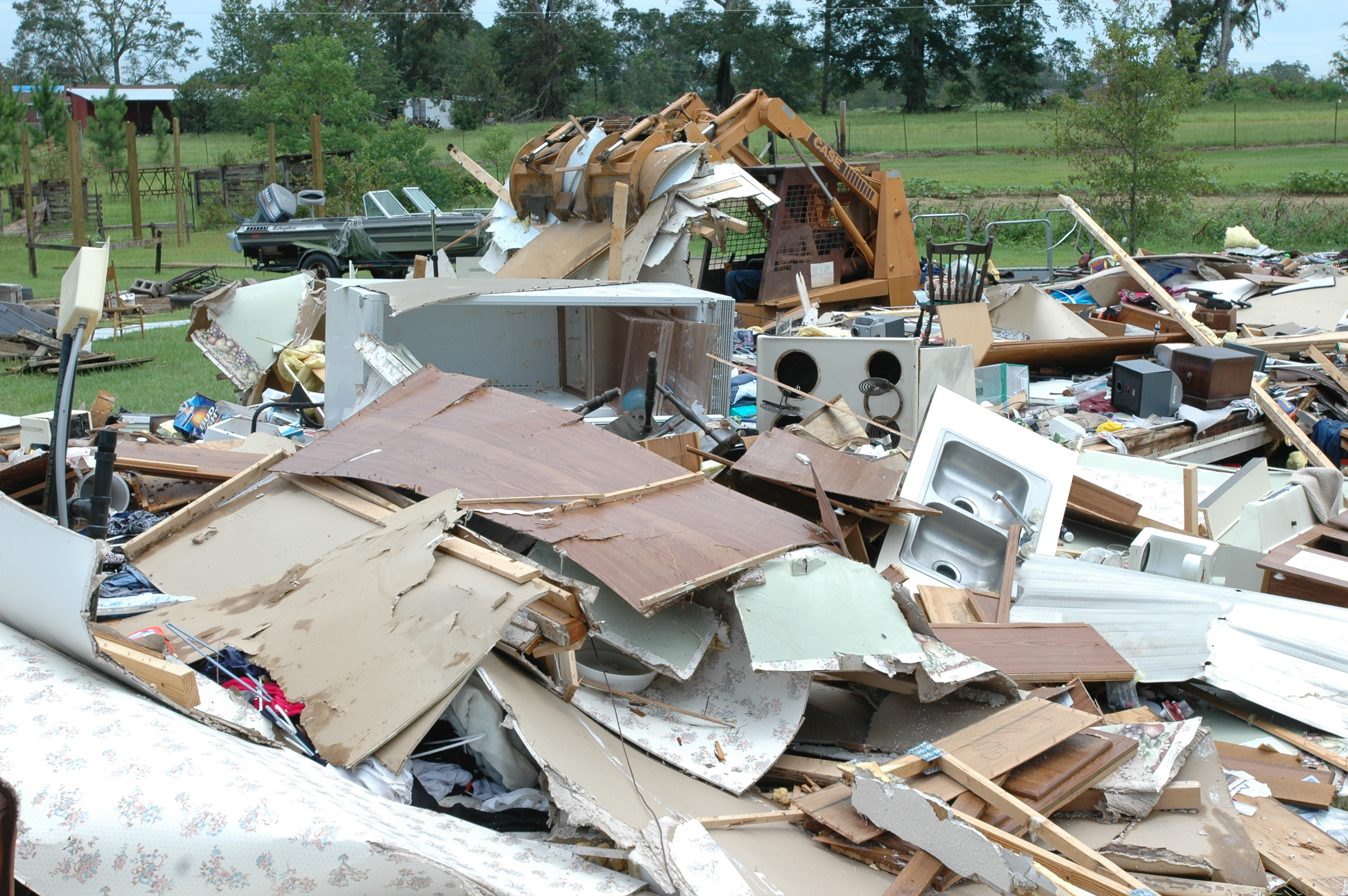 A house in Alabama destroyed by Hurricane Dennis in 2005.